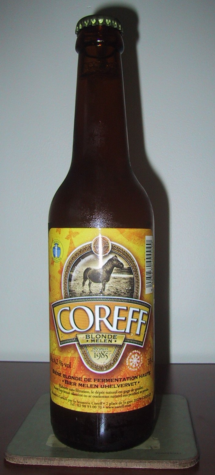 Bottle of Coreff blond beer (Brittany, France)